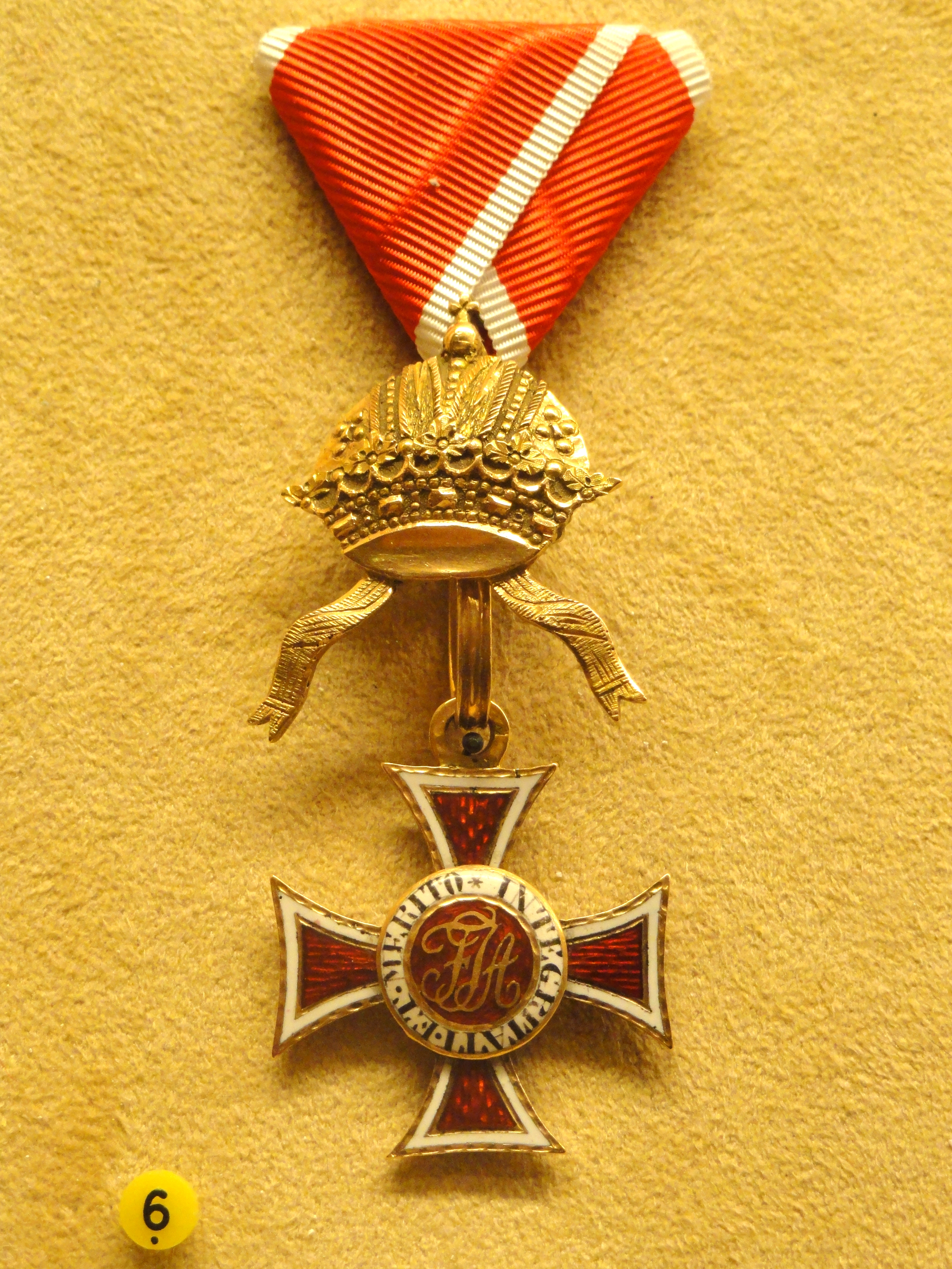 Award in the National Museum of Finland, Helsinki, Finland. This artwork is in the public domain because the artist(s) died more than 70 years ago.